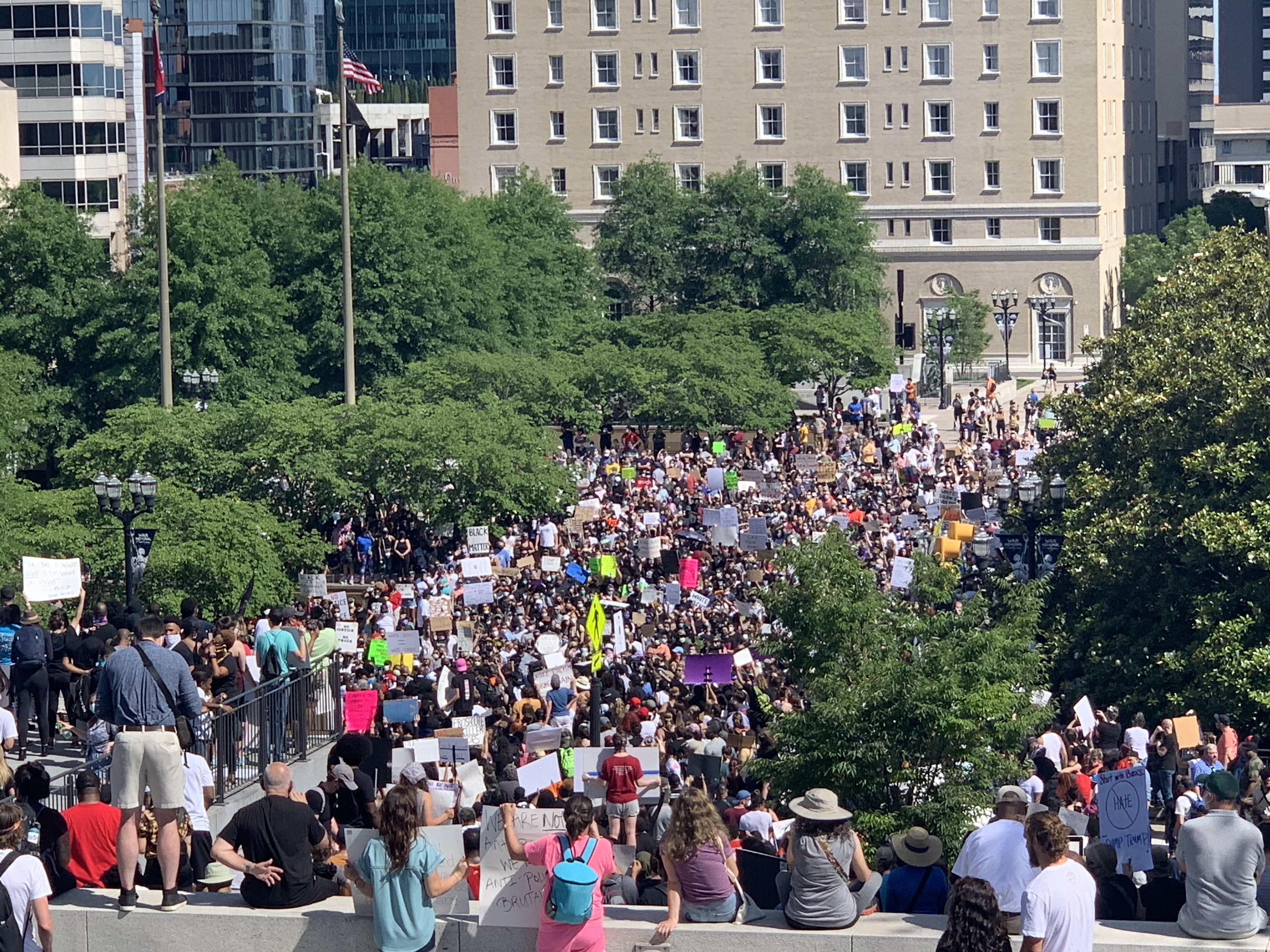 Photo of crowd protesting the murder of George Floyd in front of the Tennessee State Capitol on May 30, 2020